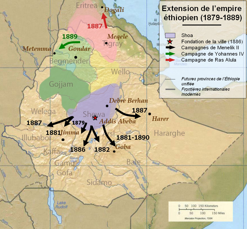 Menelik's campaigns (1879-1889). This is part of a set of three map : Menelik's campaigns (1879-1889) Menelik's campaigns (1889-1896) Menelik's campaigns (1897-1904)